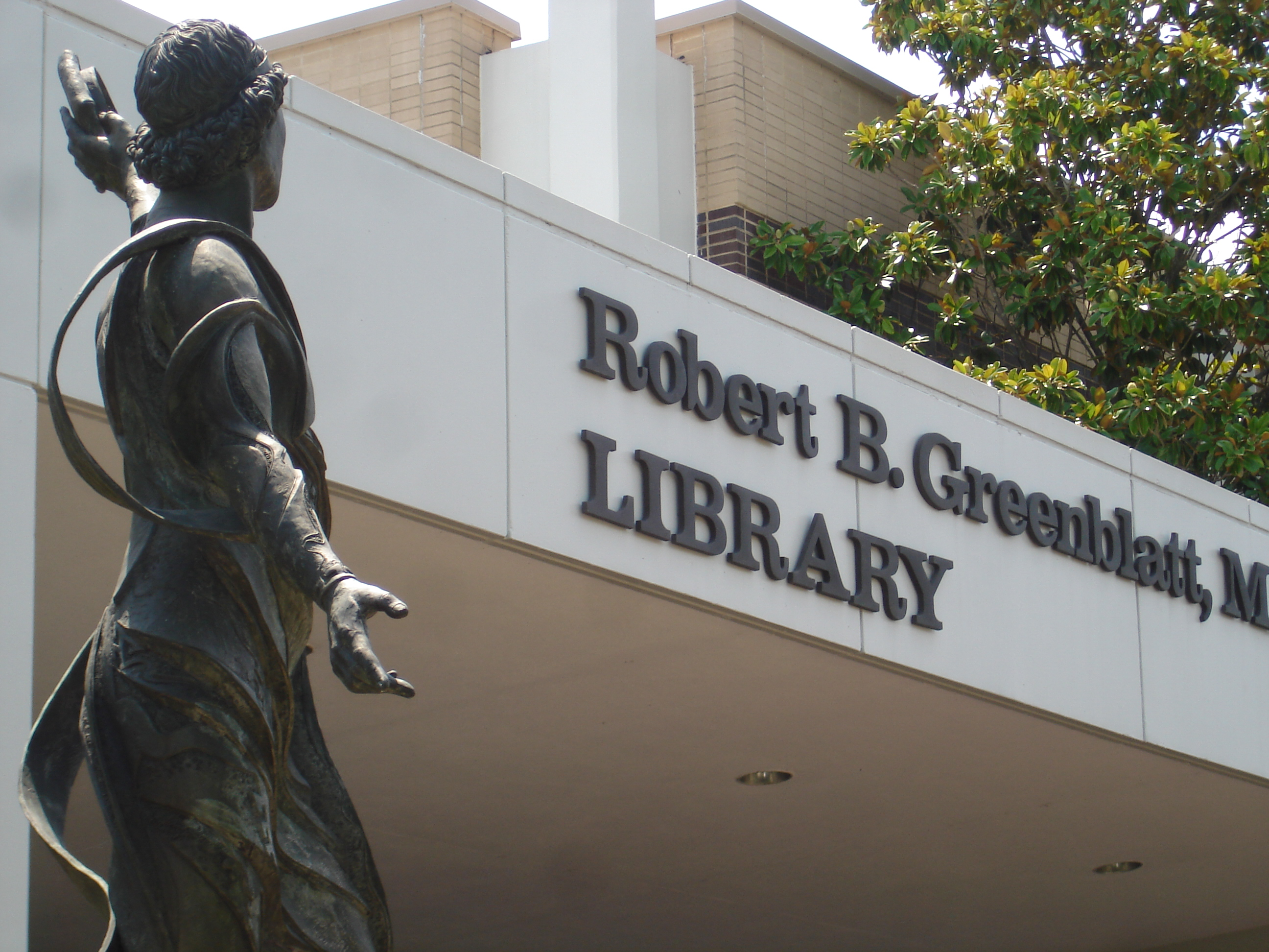 The Graduate Statue, which resides outside an entrance to Georgia Regents University's Greenblatt Library on its Health Sciences campus.